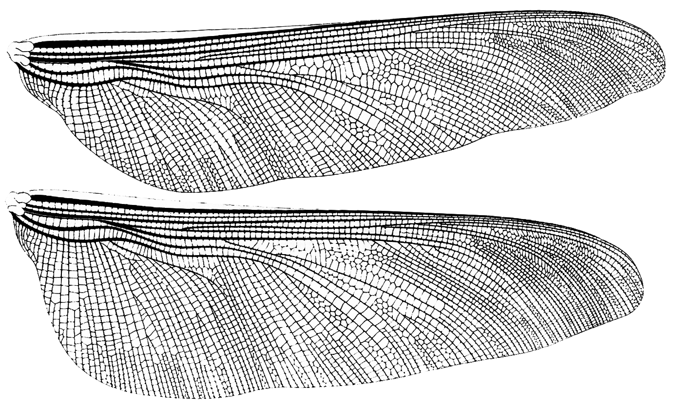 Wing venation of Meganeura monyi after Brongniart (1893, Pl. XLI)